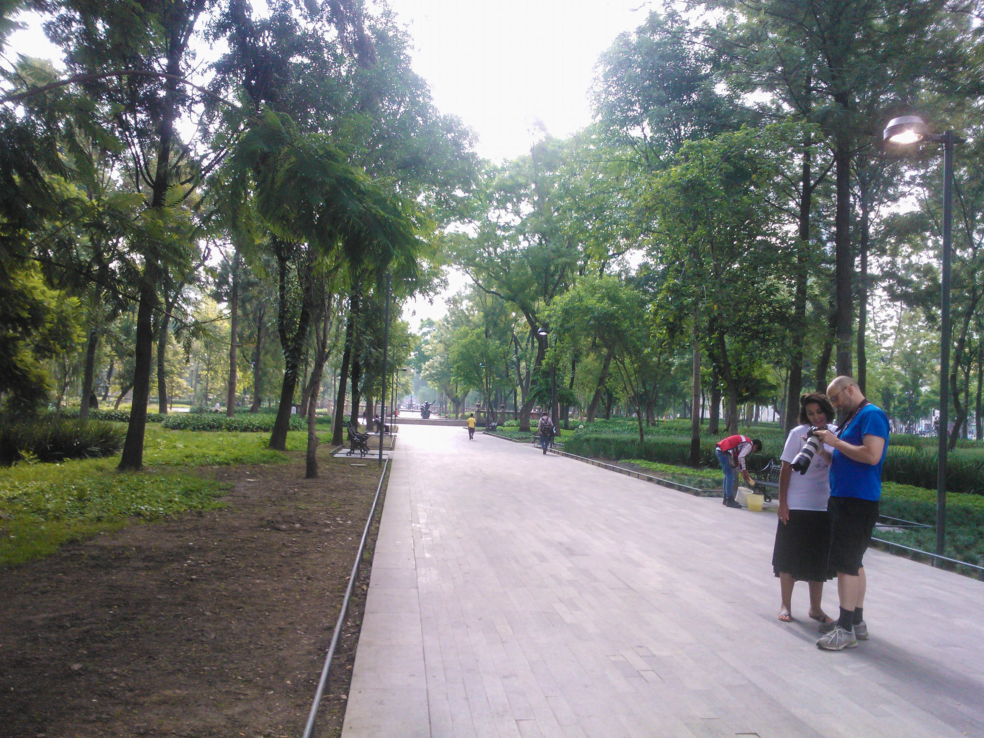 Alameda Central (Mexico City)